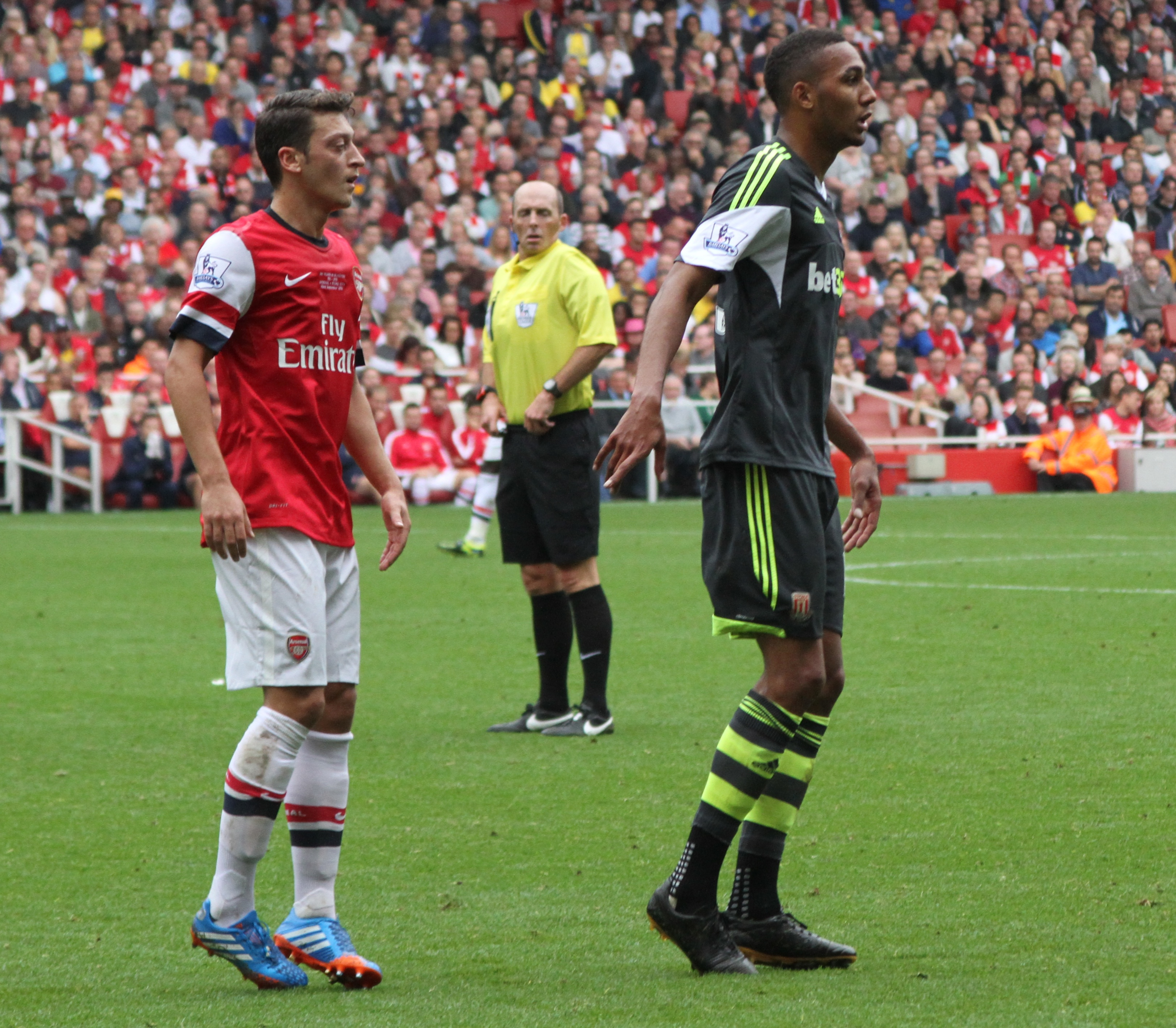 Mesut Özil (Arsenal) and Steven N'Zonzi (Stoke City).